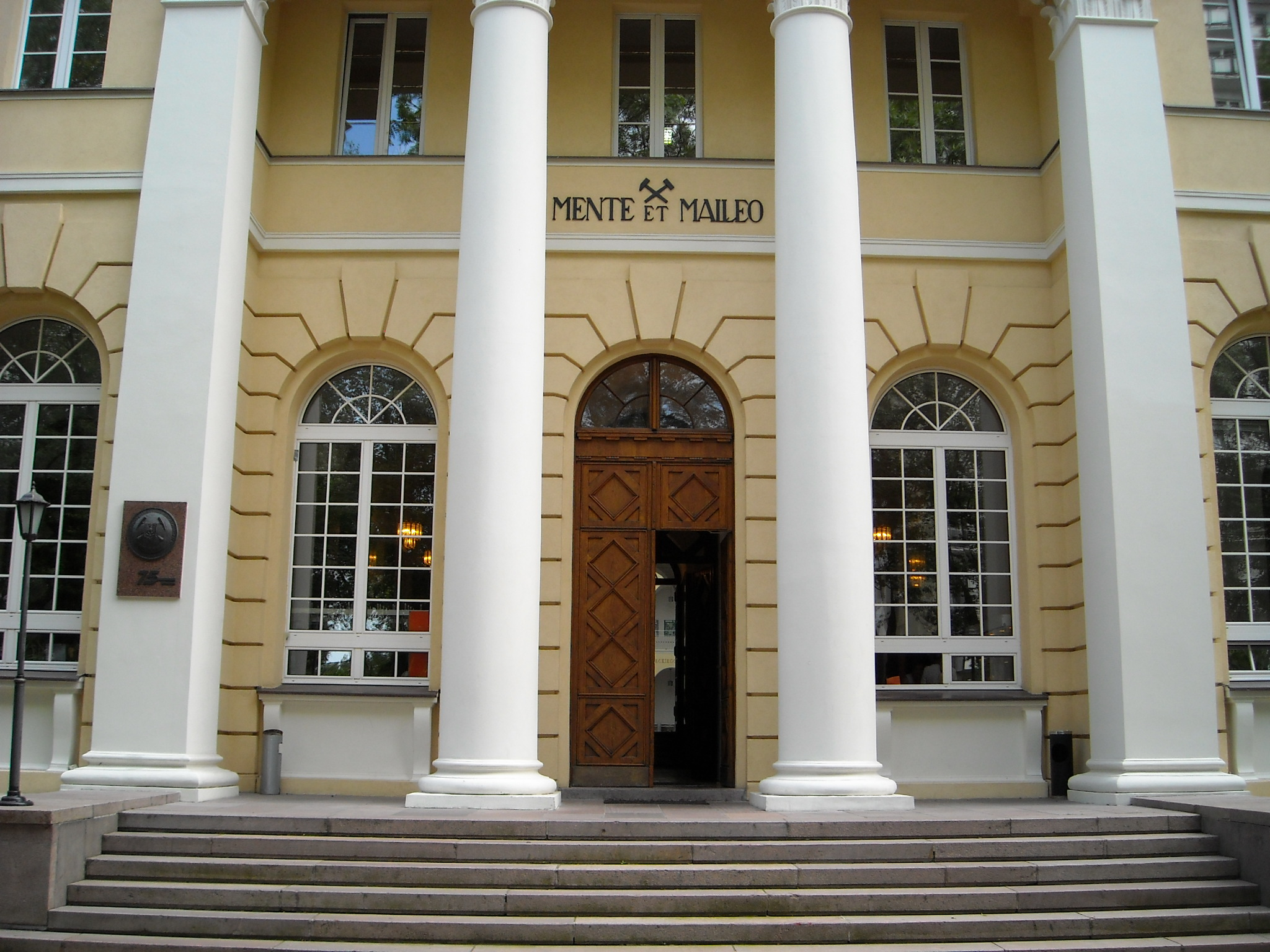 Entry to the main building of the Geological Museum of the Polish Geological Institute in Warsaw.